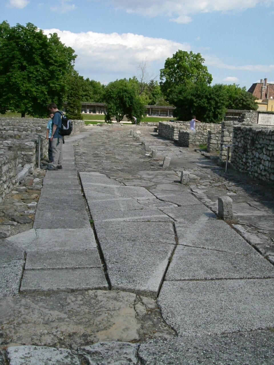 Aquincum, Budapest, Hungary: Ancient Street in Aquincum